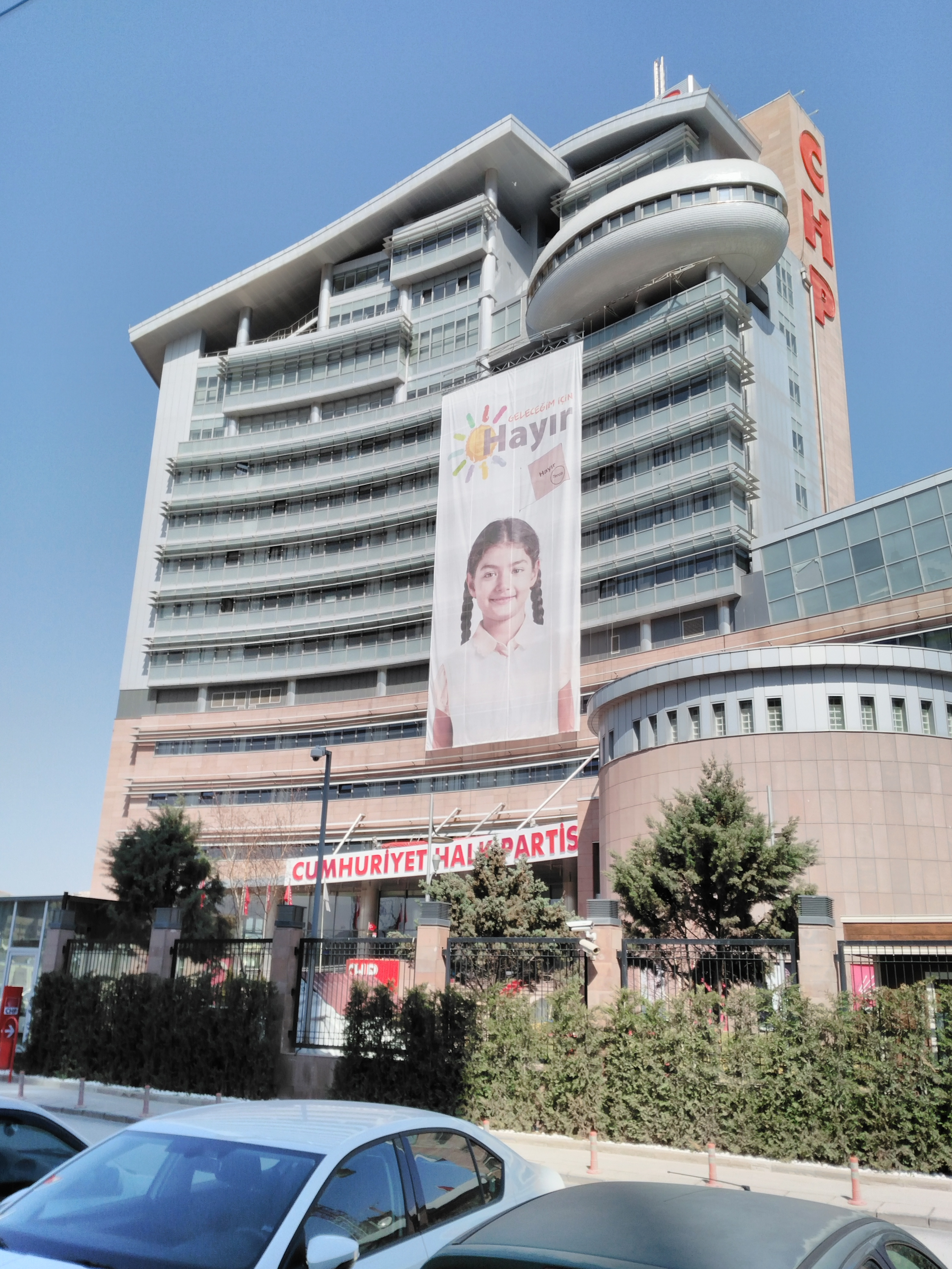 The Republican People's Party (Turkish: Cumhuriyet Halk Partisi) building in Ankara. Srpskohrvatski / српскохрватски: Zgrada Republikanske narodne partije (turski: Cumhuriyet Halk Partisi) u Ankari